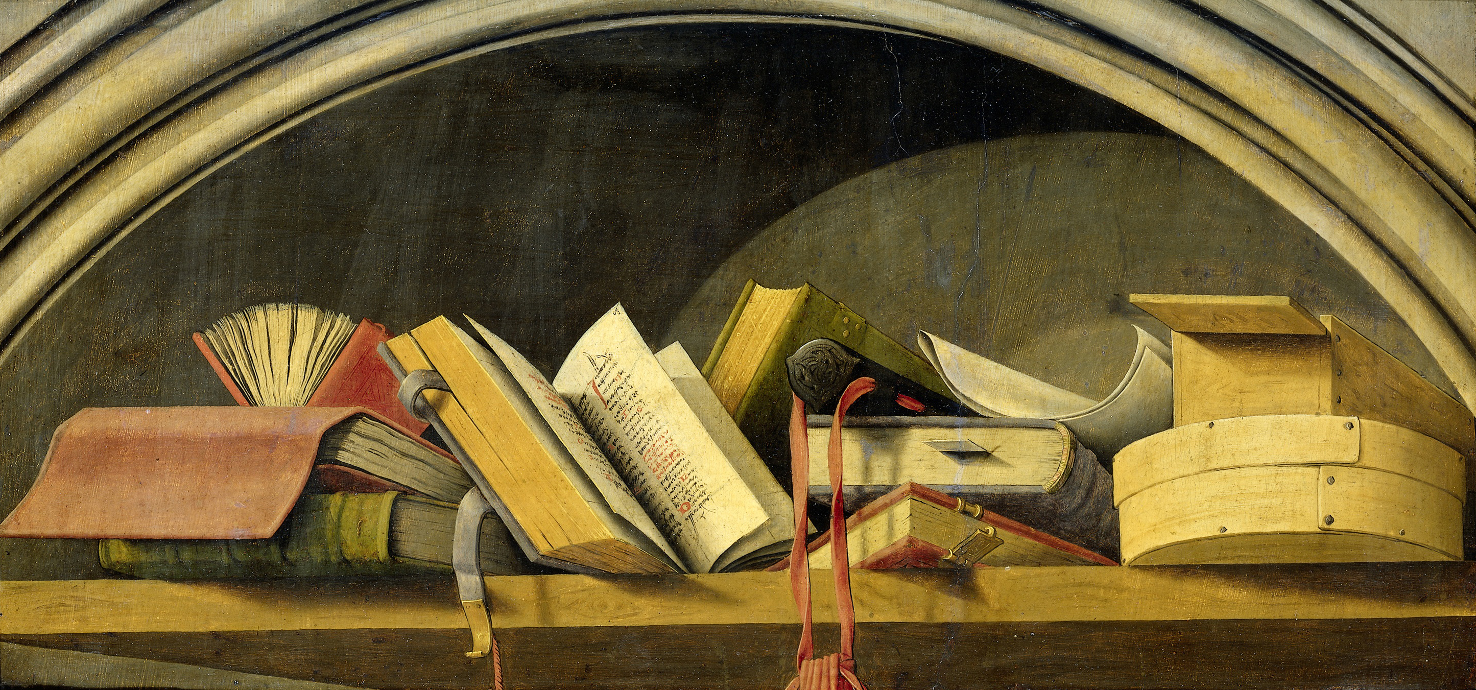 Fragment of the left wing of the Aix Annunciation Triptych; see Category:Annunciation Tryptych by Barthélemy d'Eyck for the entire triptych.